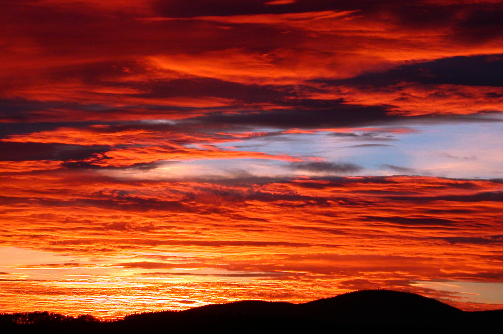 Red winter sunset at the highway rest stop in Loipersdorf / Burgenland / Austria / EU.